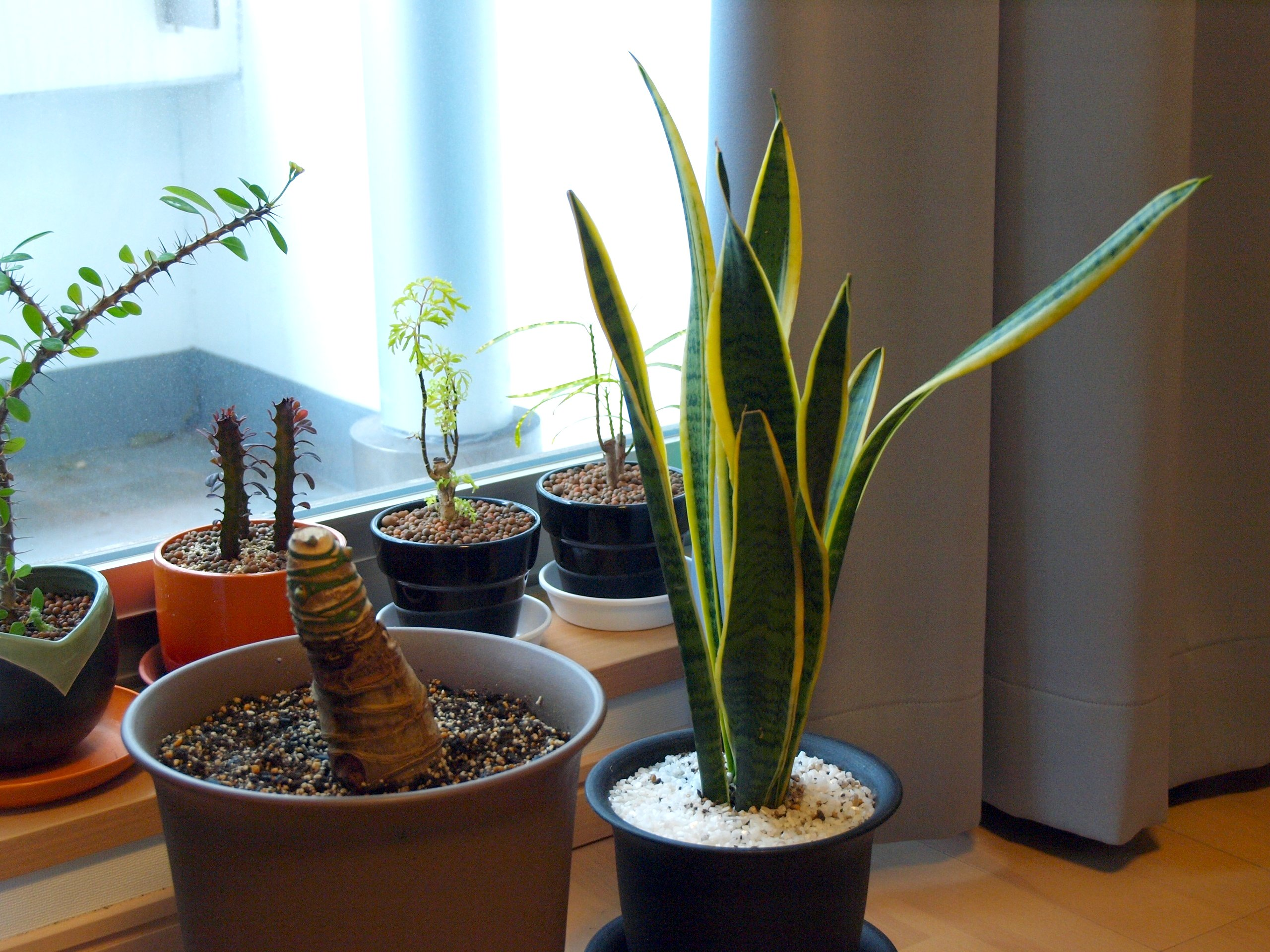 Potted House plants.